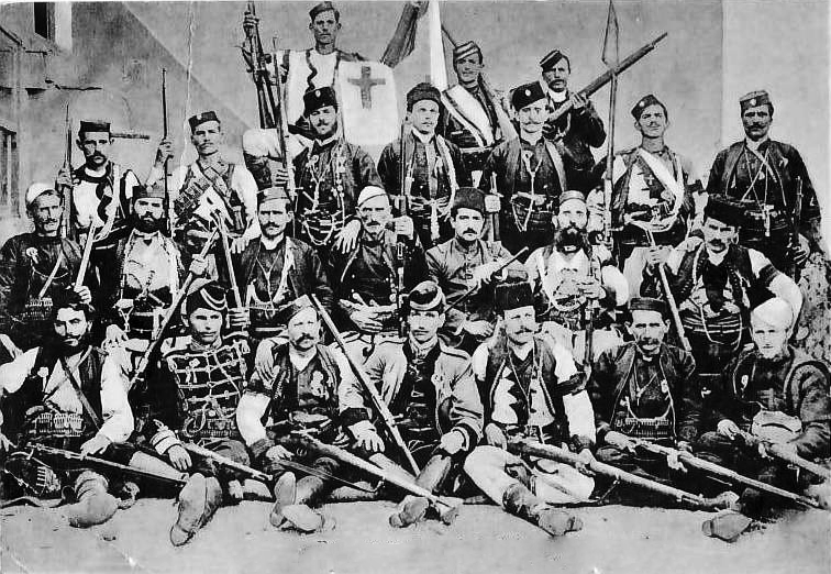 "Serbian Chetnik Voivodes in Old Serbia and Macedonia". 1st row: 1. Undetermined, 2. Dane, 3. Undetermined 2nd row: 1. Koce, 2. Petko Ilić, 3. Starački, 4. Stefan Nedić-Ćela, 5. Denko, 6. Čuma, 7. Boško 3rd row: 1. Gvozdić, 2. Mihajlo, 3. Gligor Sokolović, 4. Undetermined, 5. Undetermined, 6. Jovan Dovezenski, 7. Trenko 4th row: 1. Toša, 2. Kosta Pećanac, 3. Cene Marković, 4. Đorđe Skopljanče, 5. Jovan Babunski, 6. Jovan Dolgač, 7. Babović